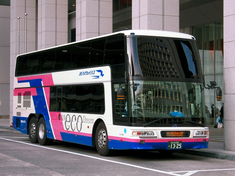 Nishinihon JR bus Highwaybus "Youth Eco Dream"(Tokyo-Osaka)Mitsubishi Fuso Aero King(BKG-MU66JS)